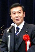 Katsuhiko Yokomitsu, Senior Vice-Minister of the Environment, addressed the Meeting for Presentation on Protection Activities of Wildlife at the Central Government Building No.5 in Chiyoda Ward, Tōkyō Metropolis on November 28, 2011.